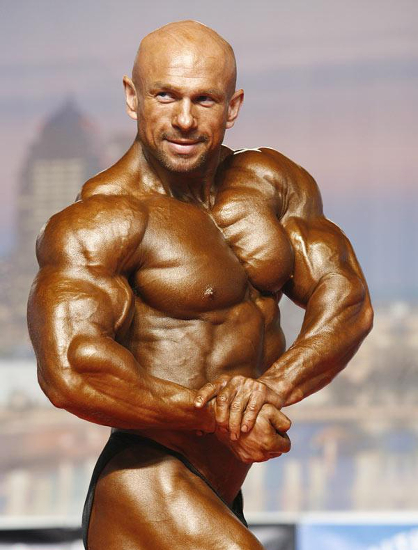 Andrzej Maszewski